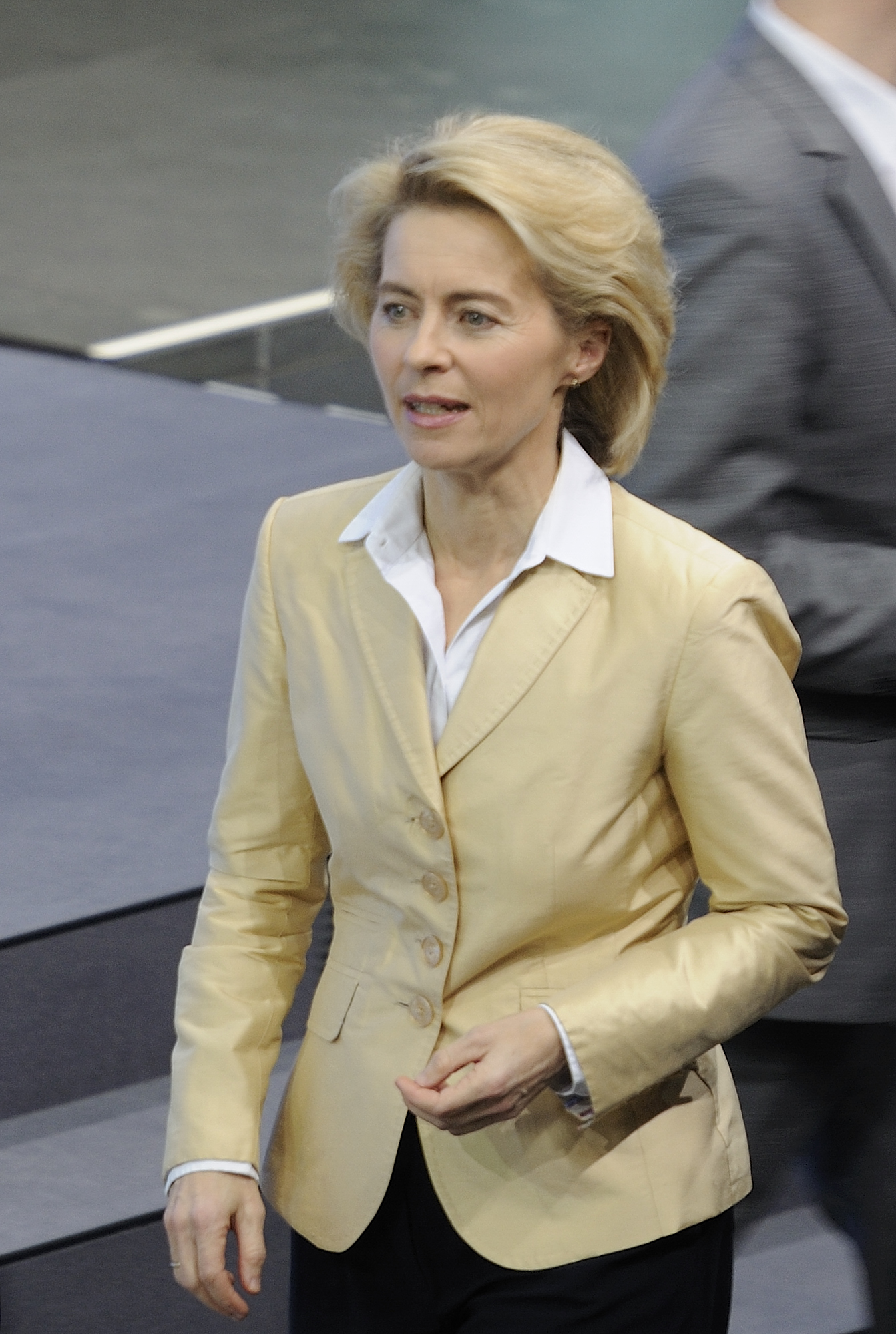 Signing of the coalition agreement for the 18th election period of the Bundestag. Ursula von der Leyen.